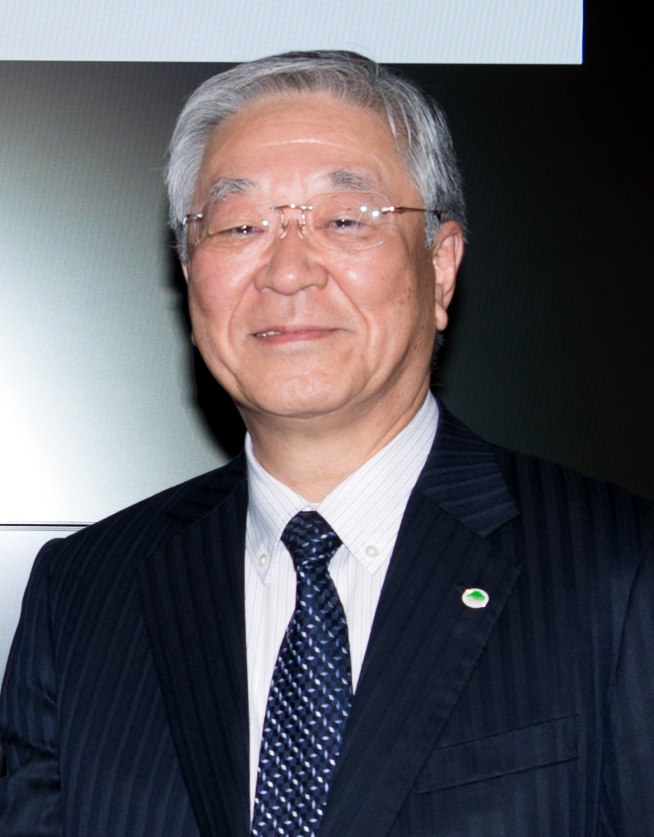 Philip Hammond, Secretary of State for Foreign and Commonwealth Affairs, met Hiroaki Nakanishi, Chairman of the Hitachi, Ltd., in Tōkyō Metropolis on January 8, 2016.